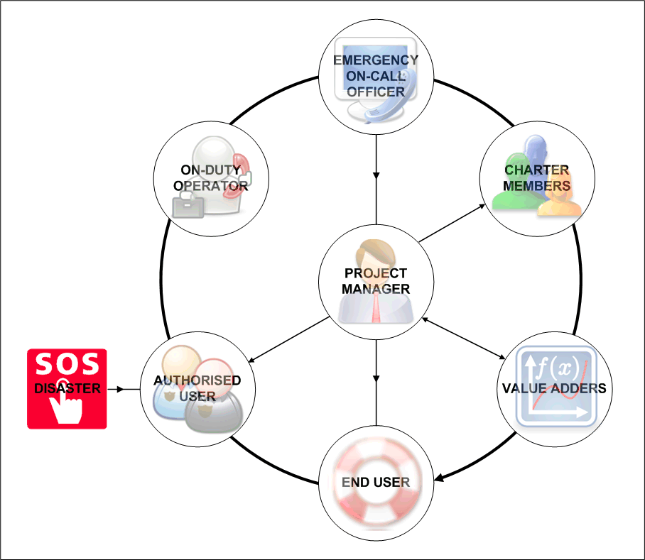 Activation cycle of International Charter on Space and Major Disasters